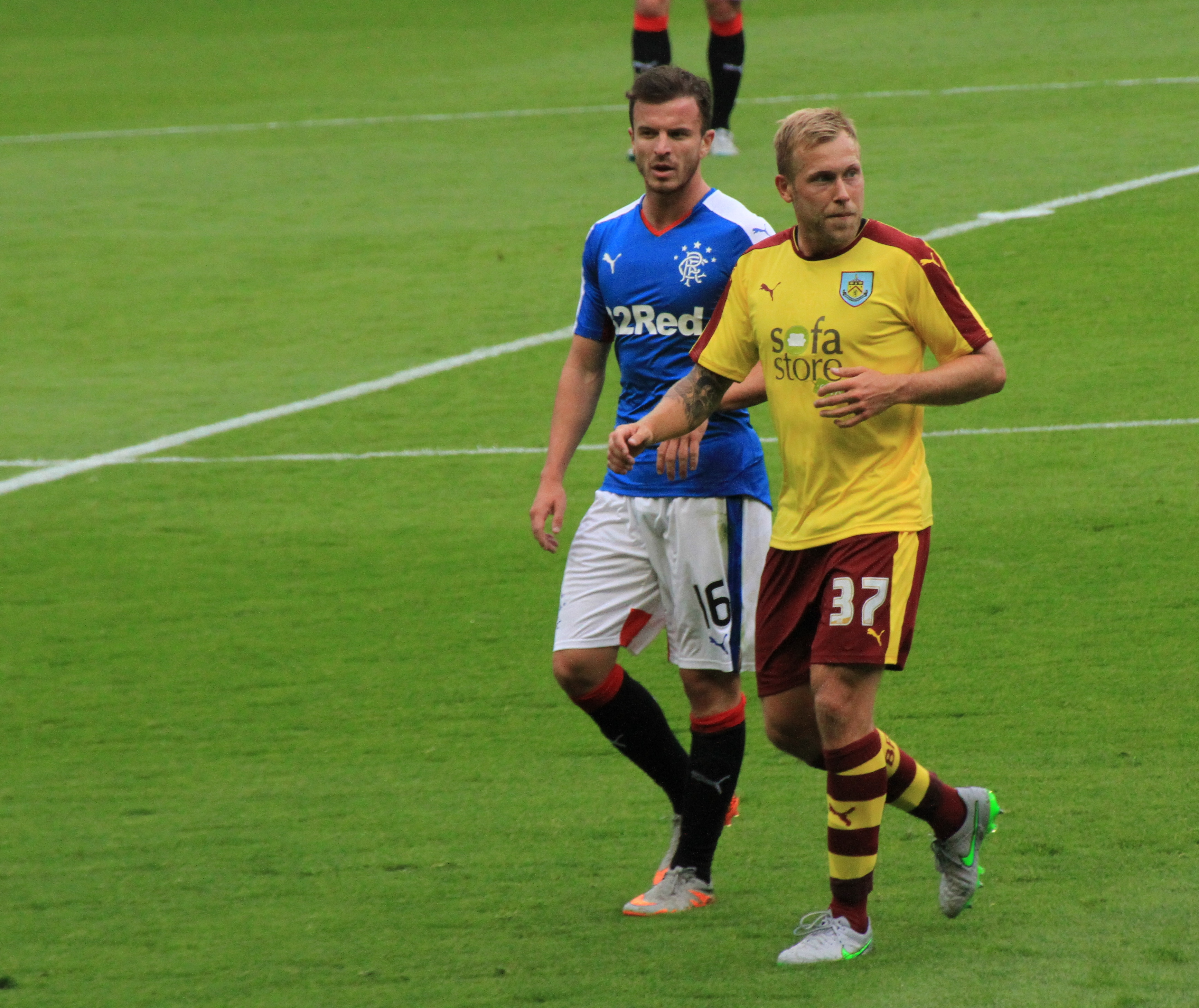 Andy Halliday (Rangers) and Scott Arfield (Burnley) in pre-season friendly.